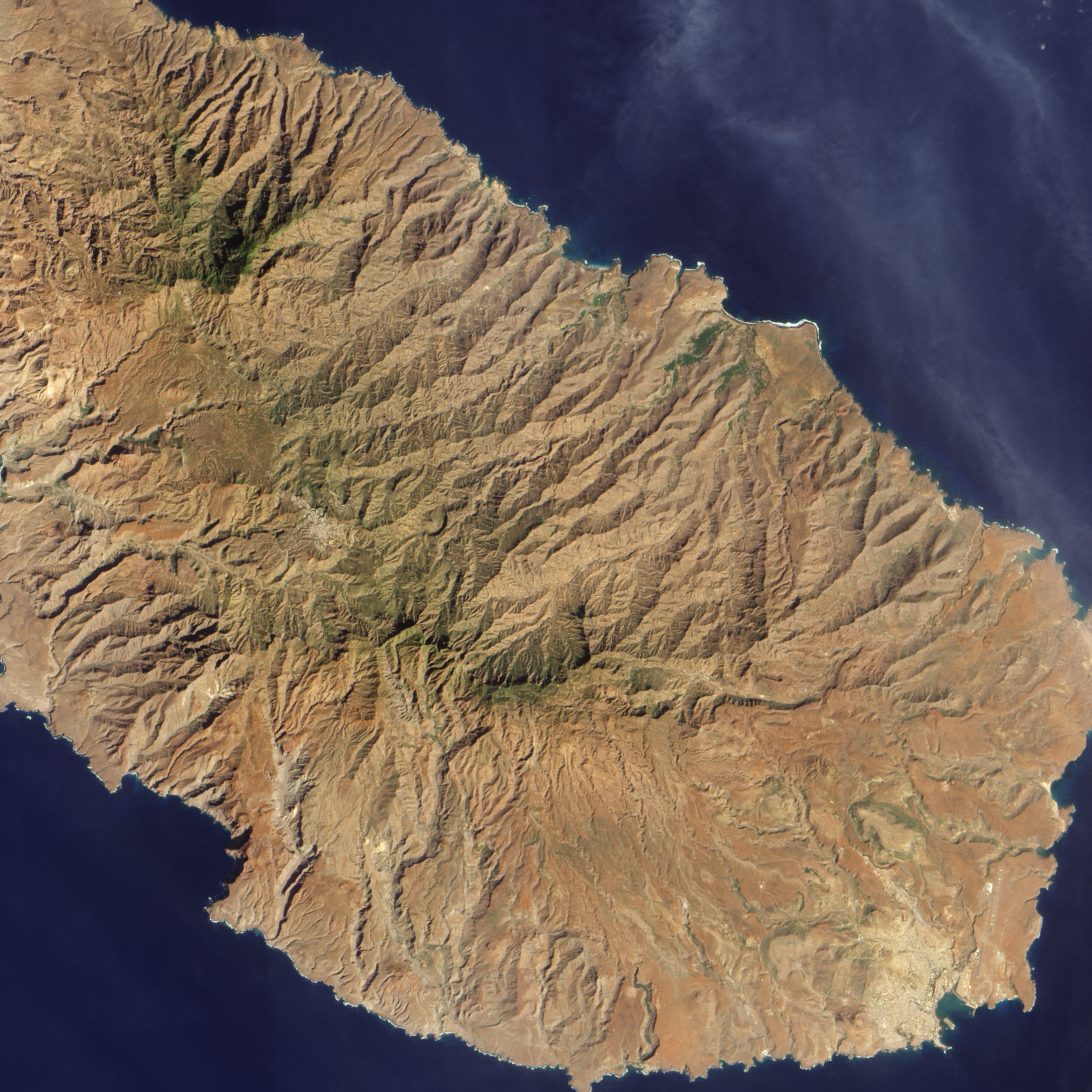 Natural-colour image of Santiago. This image shows the rugged topography of Santiago.